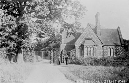 Postcard depicting Walsall Lodge, Great Barr Hall, West Bromwich, England. Designed by Sir George Gilbert Scott in 1858.